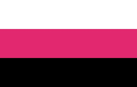 Flag of korp! Sororitas Estoniae